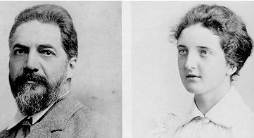 Portraits of Flinders Petrie and Hilda Petrie about the time of their marriage in 1897